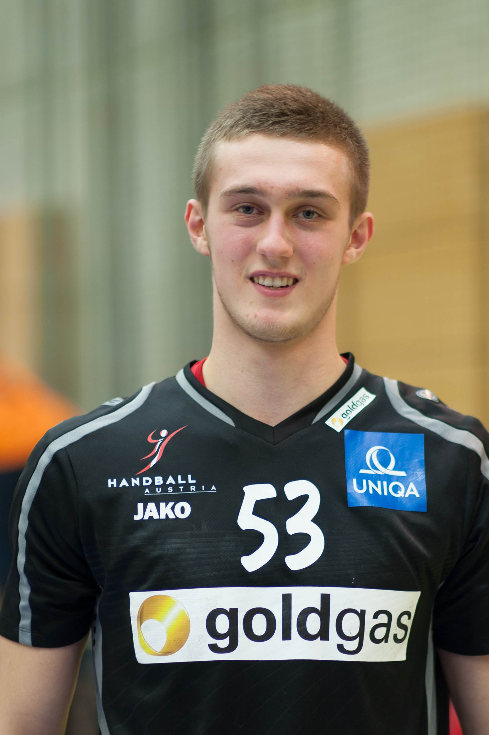 Friendly match Austria - Switzerland 2015-01-06 at Tulln, Austria